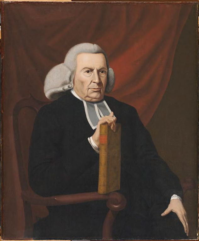 Portrait of Charles Chauncy (1705–1787)